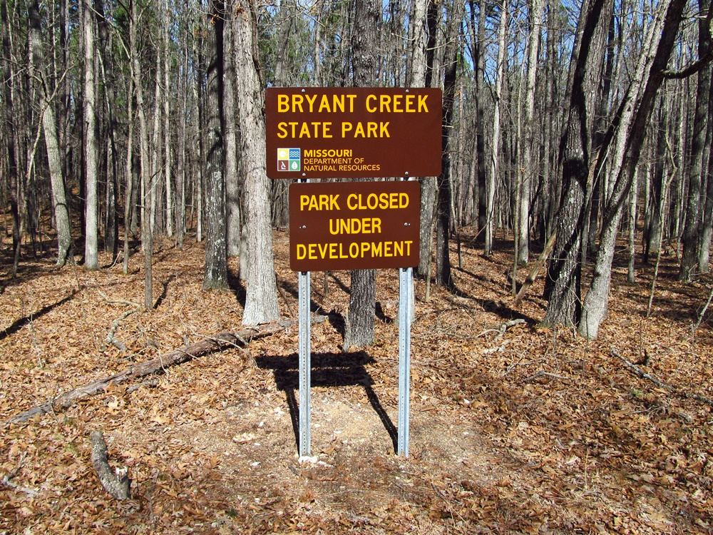 Sign at entrance to Bryant Creek State Park.